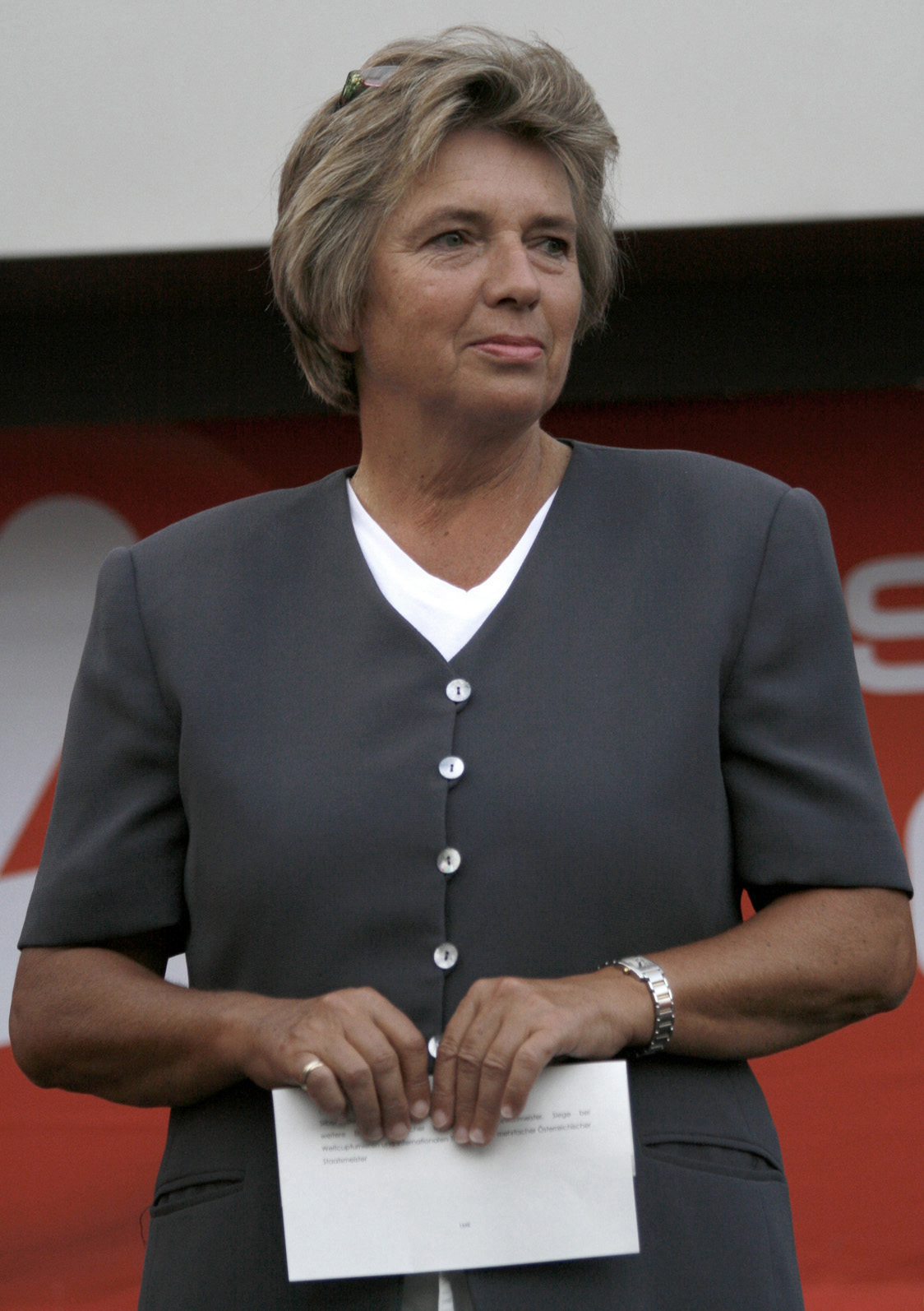 Viennese politician Grete Laska.